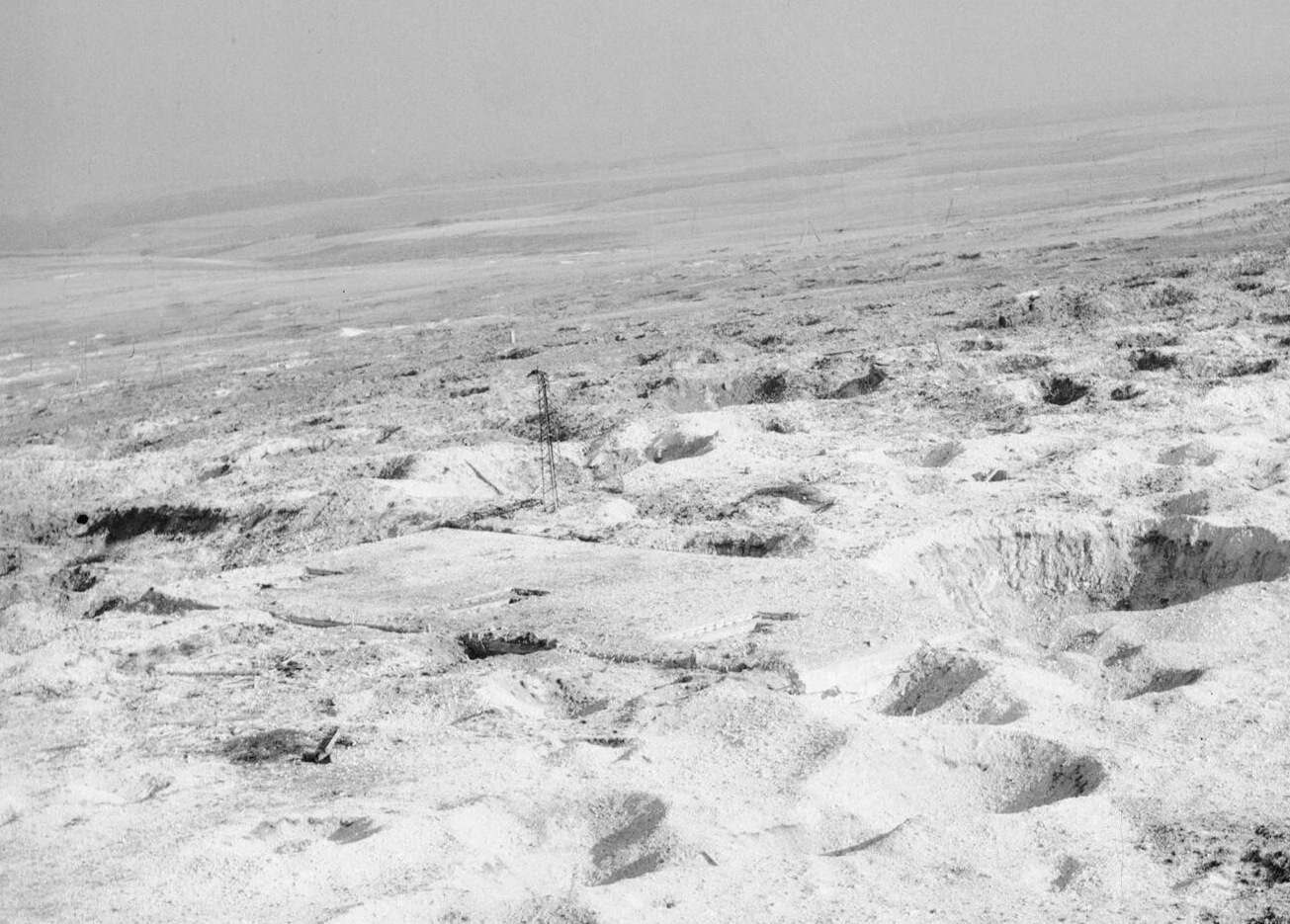 Low-level oblique aerial photograph of the bomb-cratered German secret weapon site at Mimoyecques, near Marquise, France. The concrete slab covering the V3 guns which were intended to bombard London. The site was attacked by No. 617 Squadron RAF in daylight on 6 July 1944 with 12,000 'Tallboy' deep penetration bombs. The bombs caused the collapse of some galleries and one of the gun shafts, and blocked any further work on the weapon until the site was overrun by the Canadian Army the following month